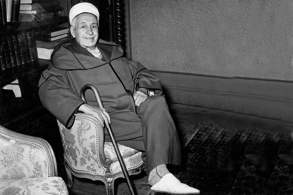 Old Bachir Ibrahimi